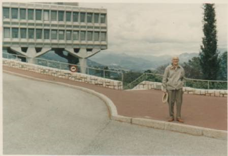 Photo by me of IBM La Gaude in the early 1970s. My father Lawrence Ogilvie is in the picture.